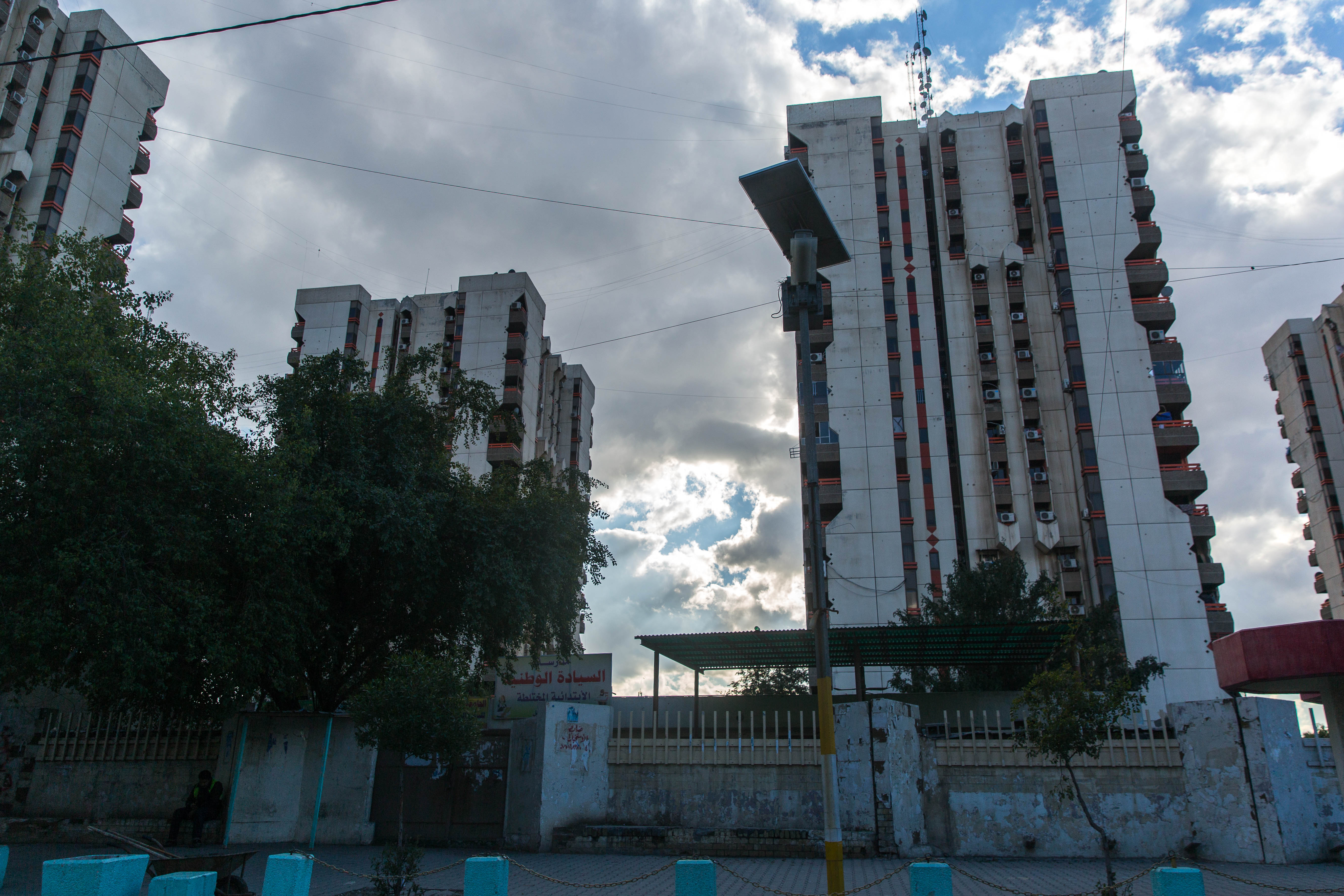 Haifa Street Baghdad 2016